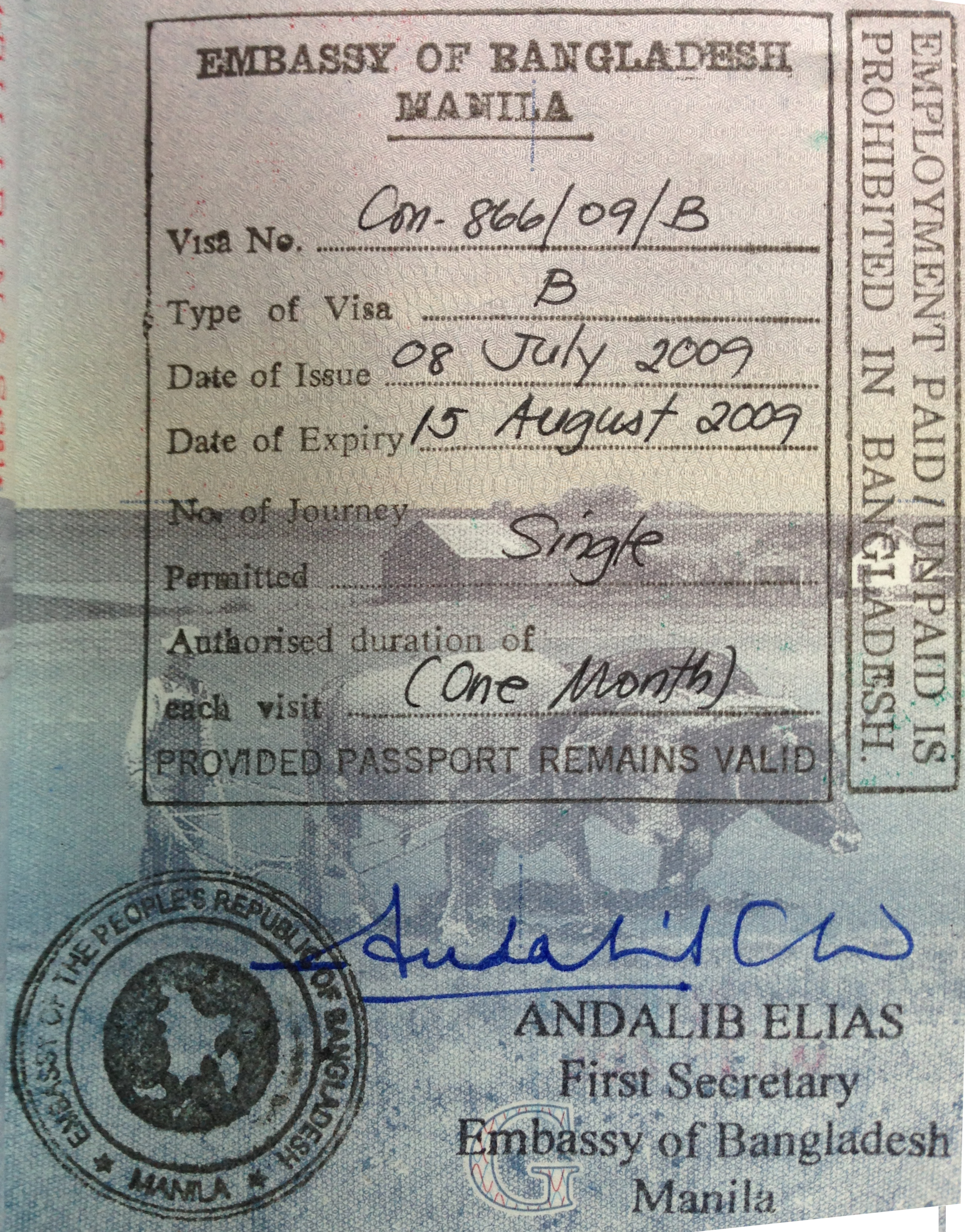 Bangladeshi visa in a U.S. passport.